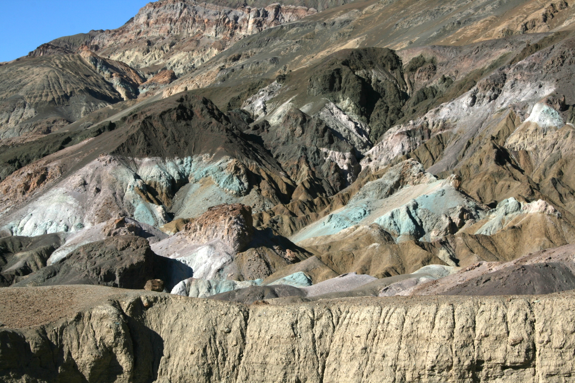 Artist's Palette in Death Valley National Park Artist's Palette is on the face of the Black Mountains and is noted for having various colors of rock. These colors are caused by the oxidation of different metals (red, pink and yellow is from iron salts, green is from decomposing tuff-derived mica, and manganese produces the purple).The image was taken by Brocken Inaglory